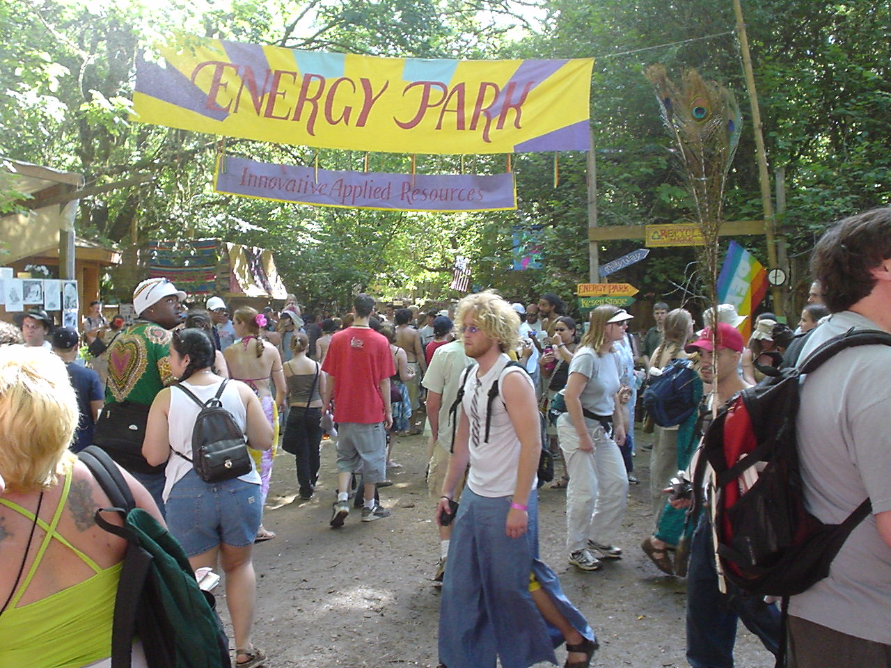 Oregon Country Fair 2003 Energy Park